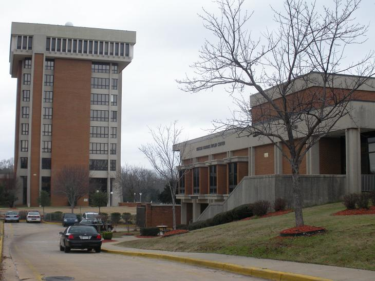 This is a picture of the main campus of Auburn University Montgomery in Montgomery, Alabama.